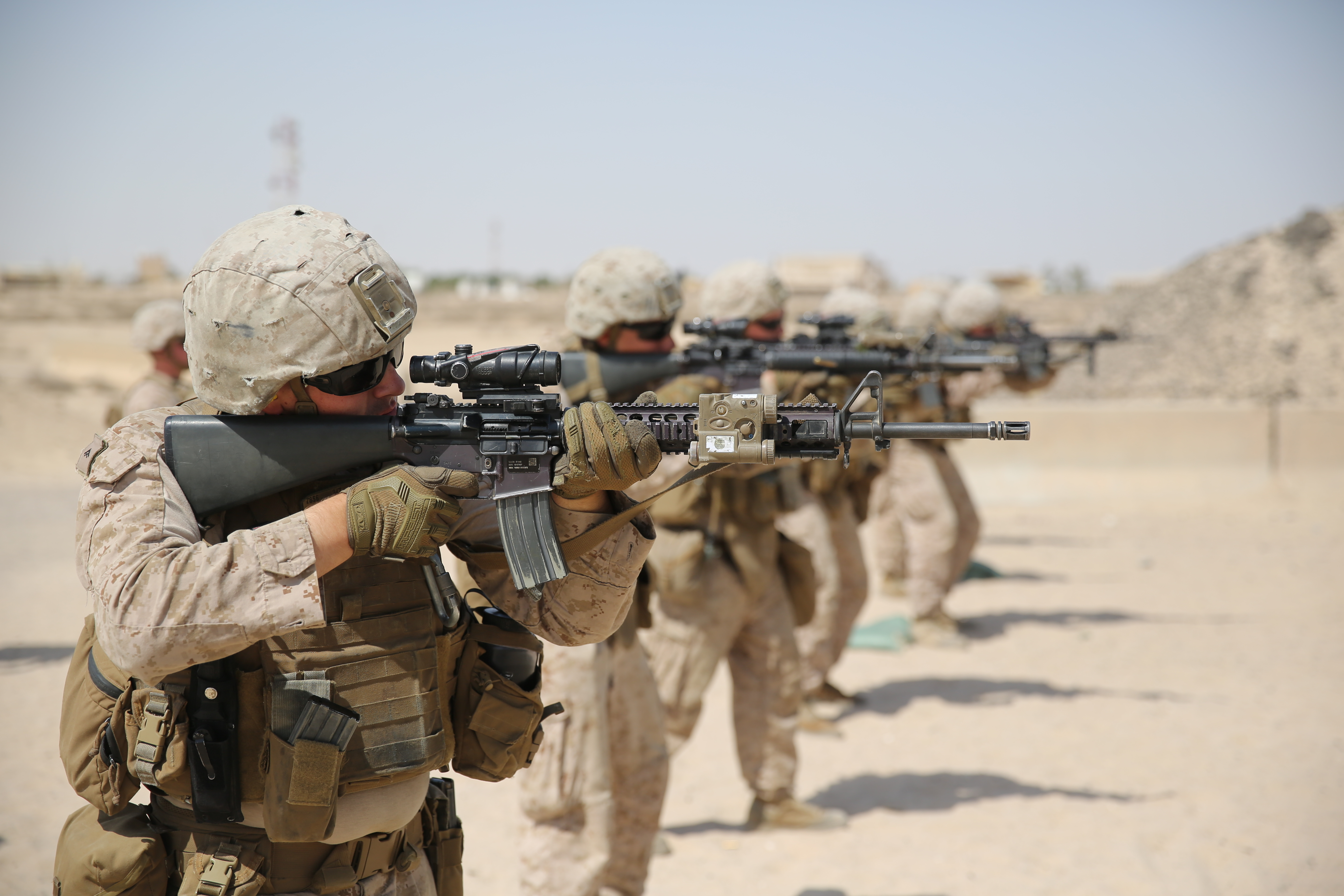 Security Force Marines with 3rd Battalion, 7th Marine Regiment, Special Purpose Marine Air-Ground Task Force -- Crisis Response -- Central Command, conduct a live-fire table five range in Southwest Asia, September, 29, 2015. The range tested the Marines ability to move, shoot and communicate ensuring the units mission readiness. The SPMAGTF-CR-CC provides the Commander, U.S. Central Command with a wide array of crisis response and contingency options across the 20 countries in the Area of Operations. (U.S Marine photo by Cpl. Jonathan Boynes)